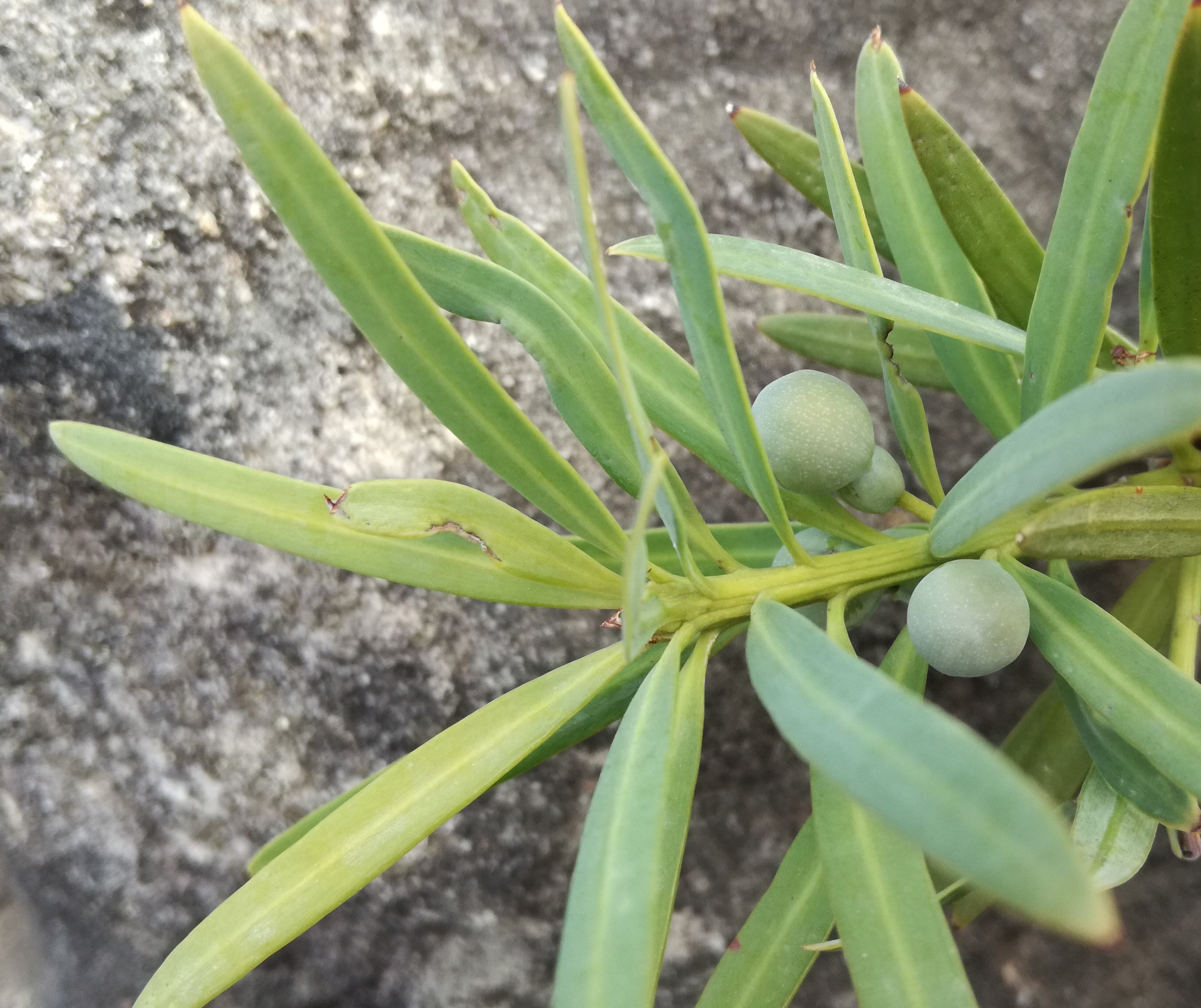 Podocarpus elongatus Groot Winterhoek